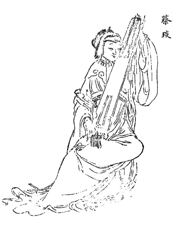 Cai Wenji